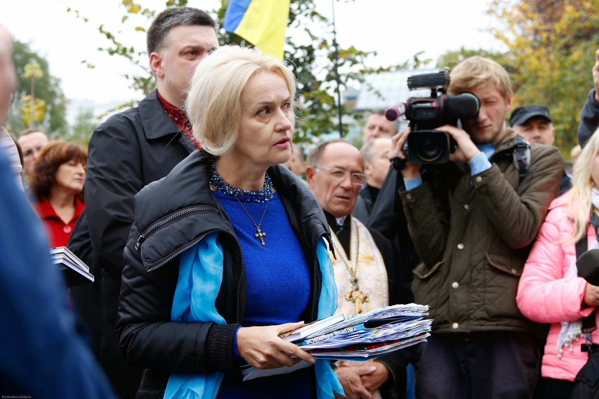 Special patrol police unit «Sich »of the Ministry of Internal Affairs of Ukraine, September 30, 2014.